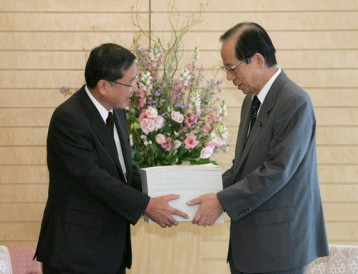 Muneharu Ōtsuka, President of the Board of Audit, handed the FY2006 Audit Report to Yasuo Fukuda, Prime Minister, at the Prime Minister's Official Residence in Chiyoda Ward, Tōkyō Metropolis on November 9, 2007.